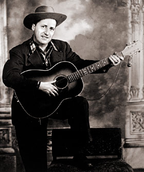 Country musician Cliff Carlisle